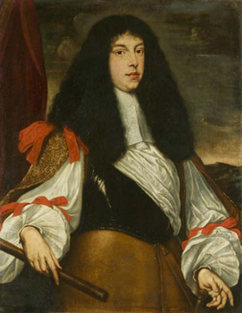 Alfonso IV, duke of Modena (1634-1662)